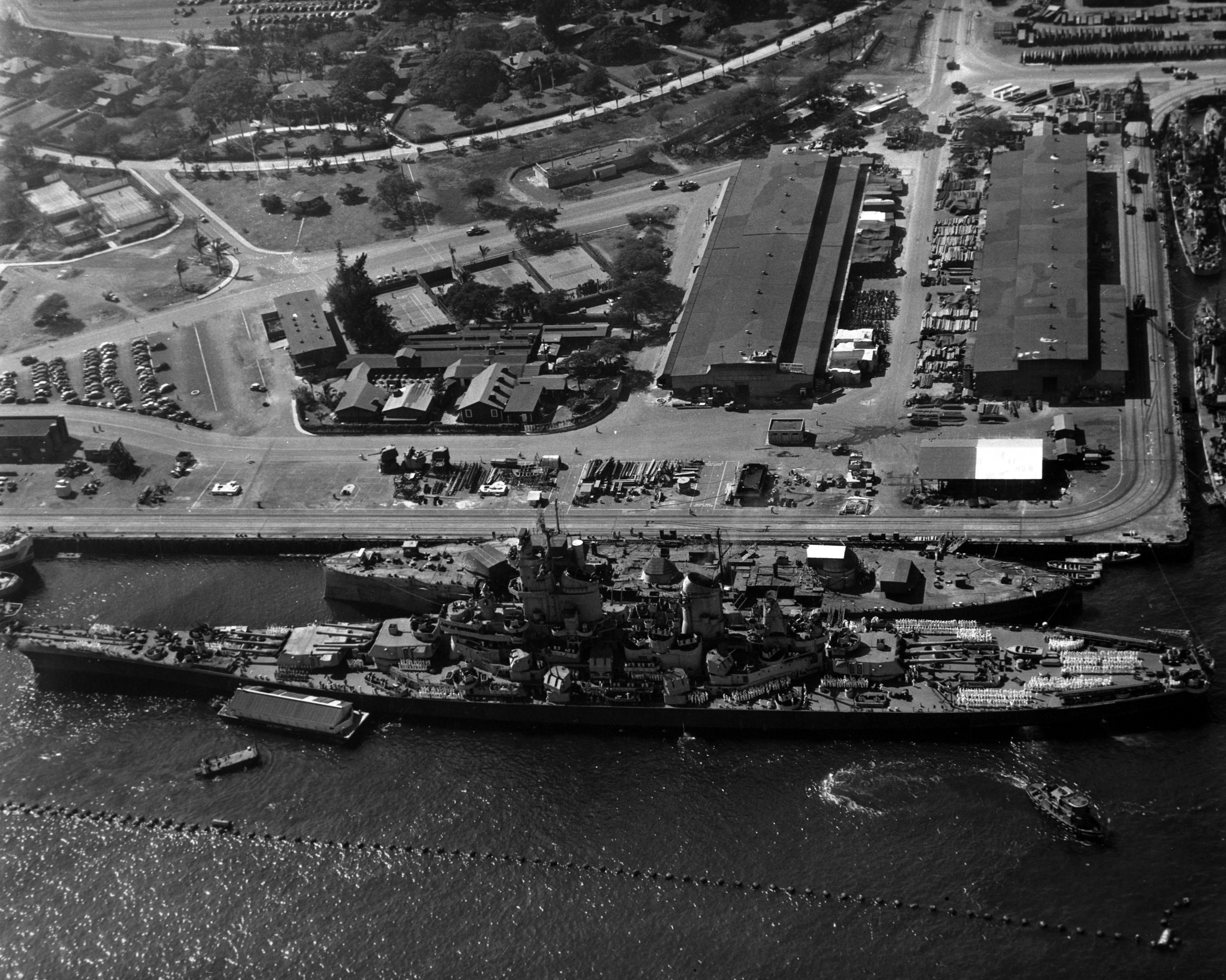 The U.S. Navy Iowa Class battleship USS Wisconsin (BB-64) is tied up outboard of the hulk of USS Oklahoma (BB-37), at the Pearl Harbor Navy Yard, Hawaii (USA), on 11 November 1944. Note the great difference in the length of the two battleships and the anti-torpedo netting outboard of the ships. Since 22 June 1998, USS Missouri (BB-63), sistership to the Wisconsin, has been moored at this location, facing in the opposite direction towards, and 500 yards away from, the USS Arizona Memorial. As a side note, all four Iowa Class battleships are memorials with the Wisconsin in Norfolk, Virginia, USS Iowa (BB-61) in San Pedro, California, and USS New Jersey (BB-62) in Camden New Jersey.